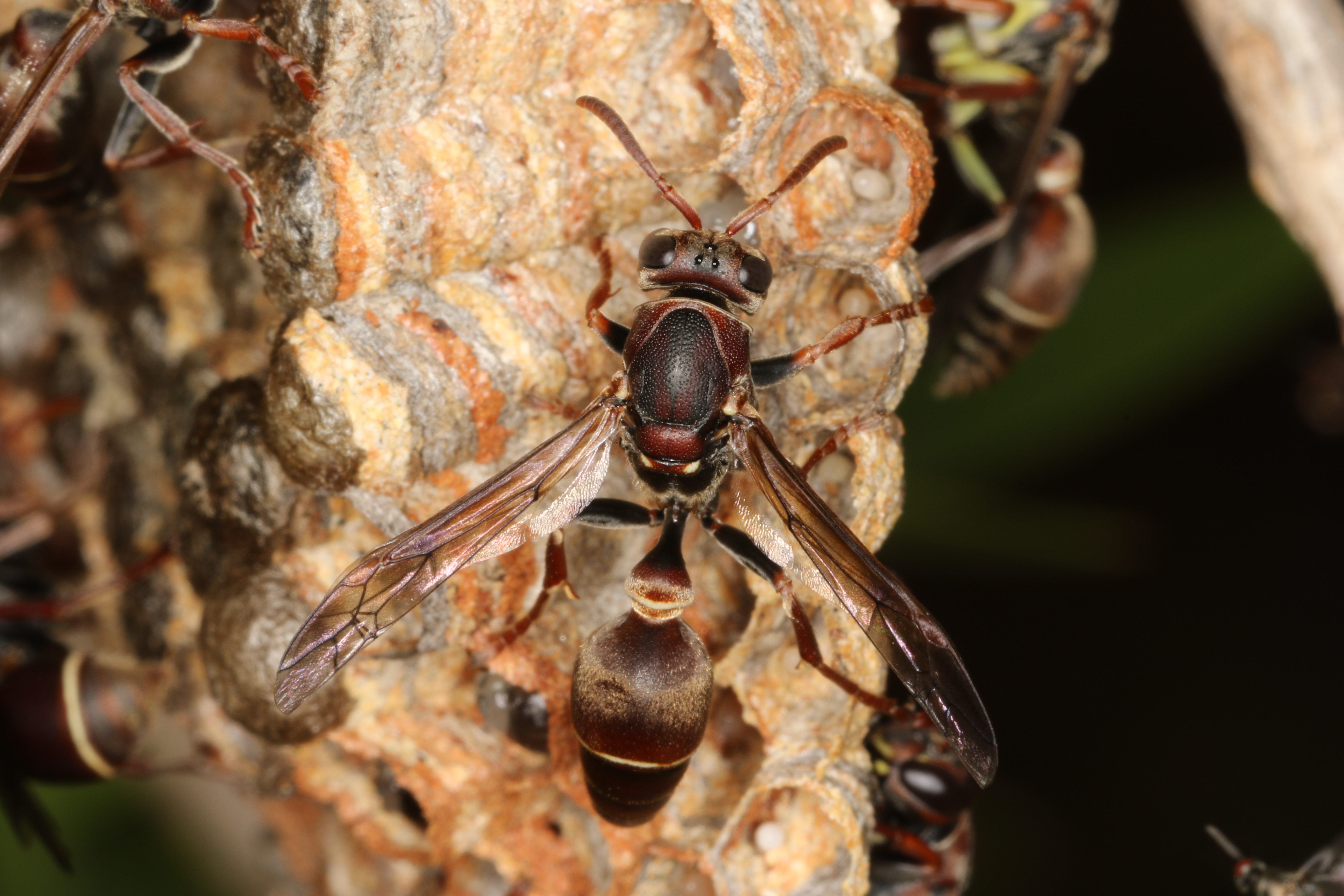 Ropalidia plebeiana (Richards, 1978), Aranda, ACT, 25 December 2015